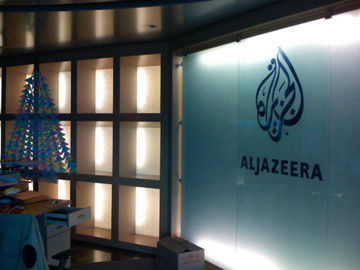 Al Jazeera Office in Kuala Lumpur, Malaysia.